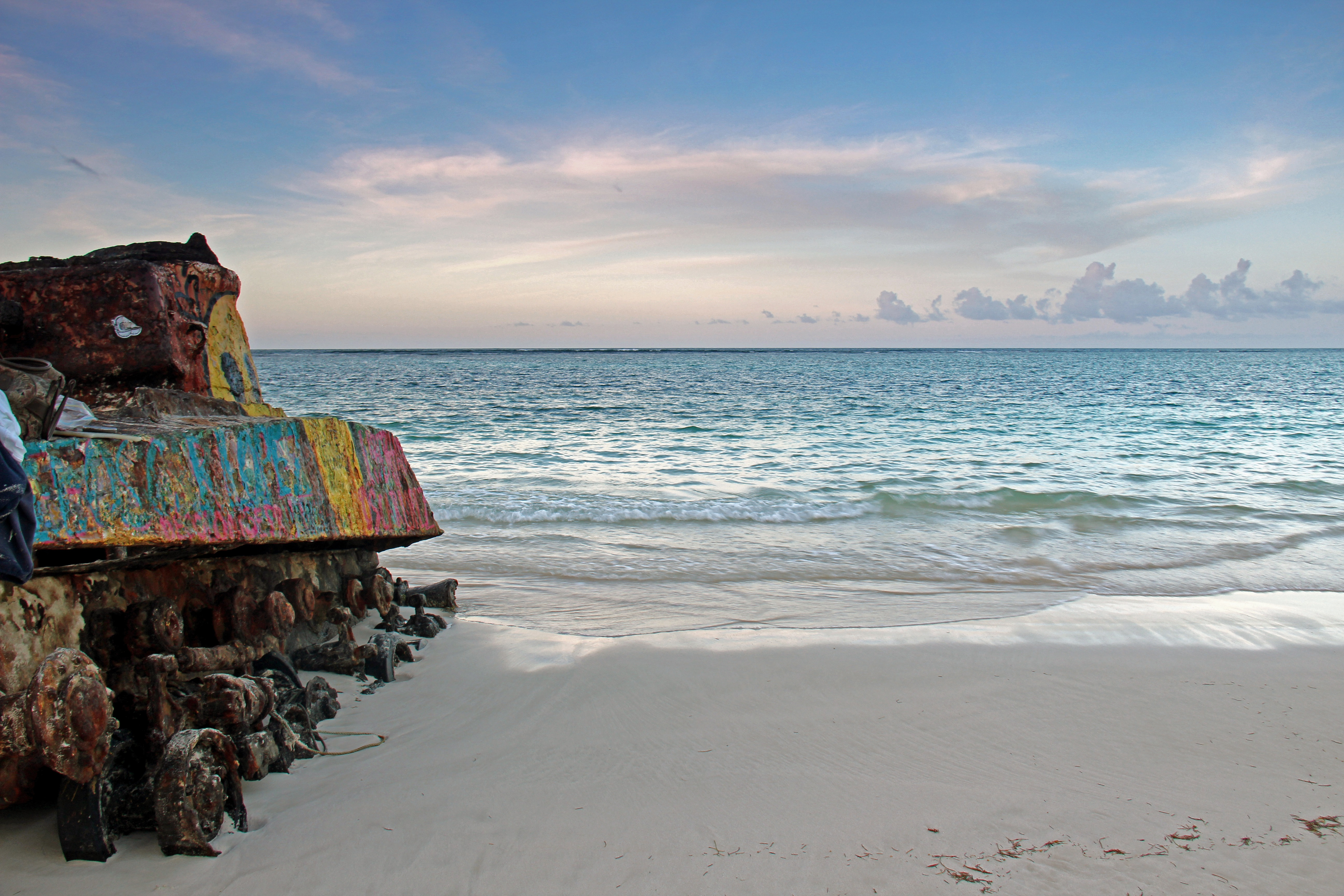 US military tank on Flamenco Beach, Culebra, Puerto Rico